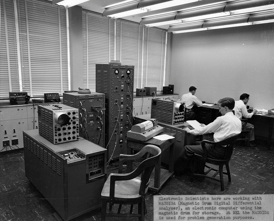 Electronic Scientists working on MADDIDA (Magnetic Drum Digital Differential Analyzer) machines at the Navy Electronics Laboratory.